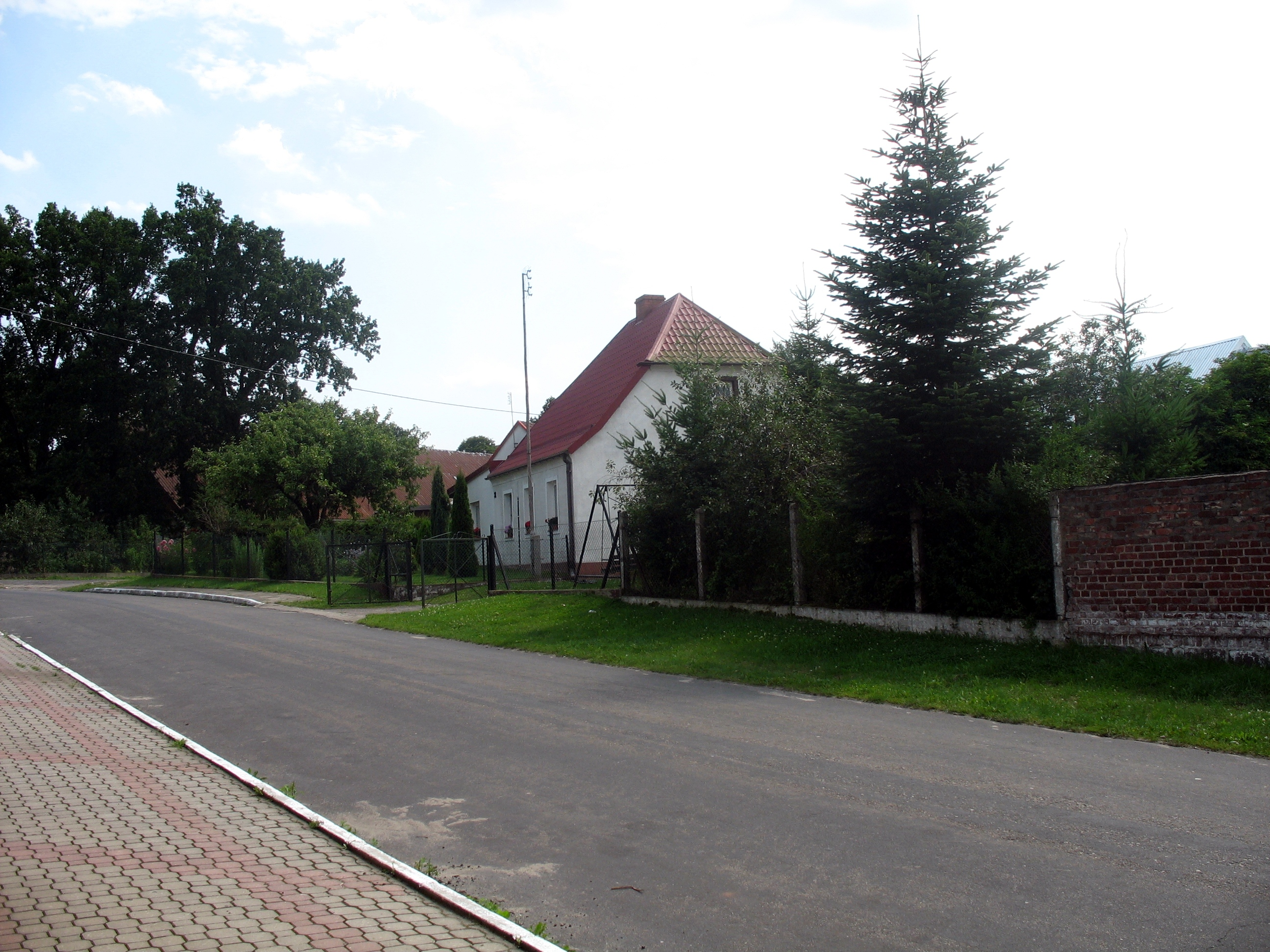 Klęcino